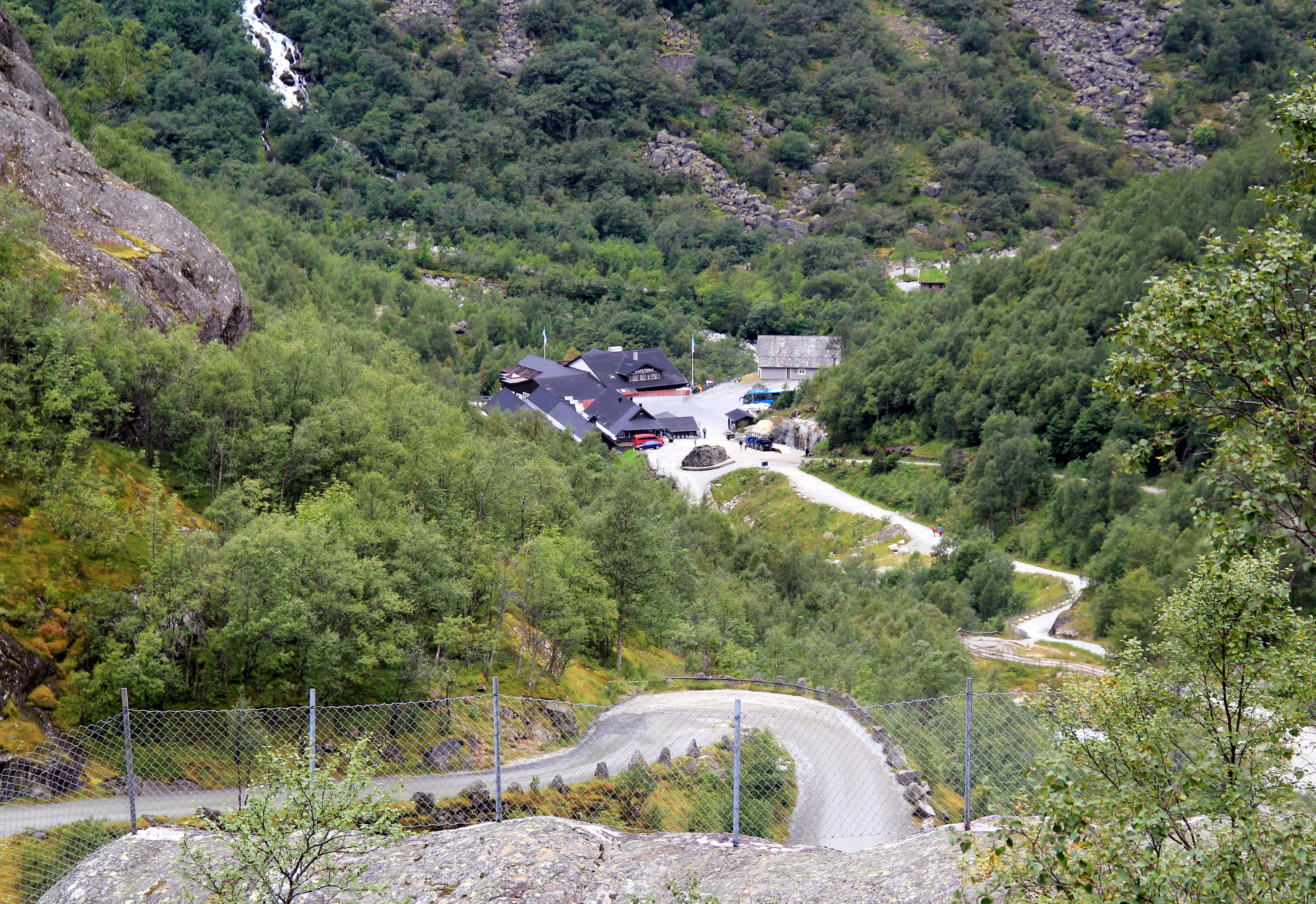 The tourist centre in Briksdalen